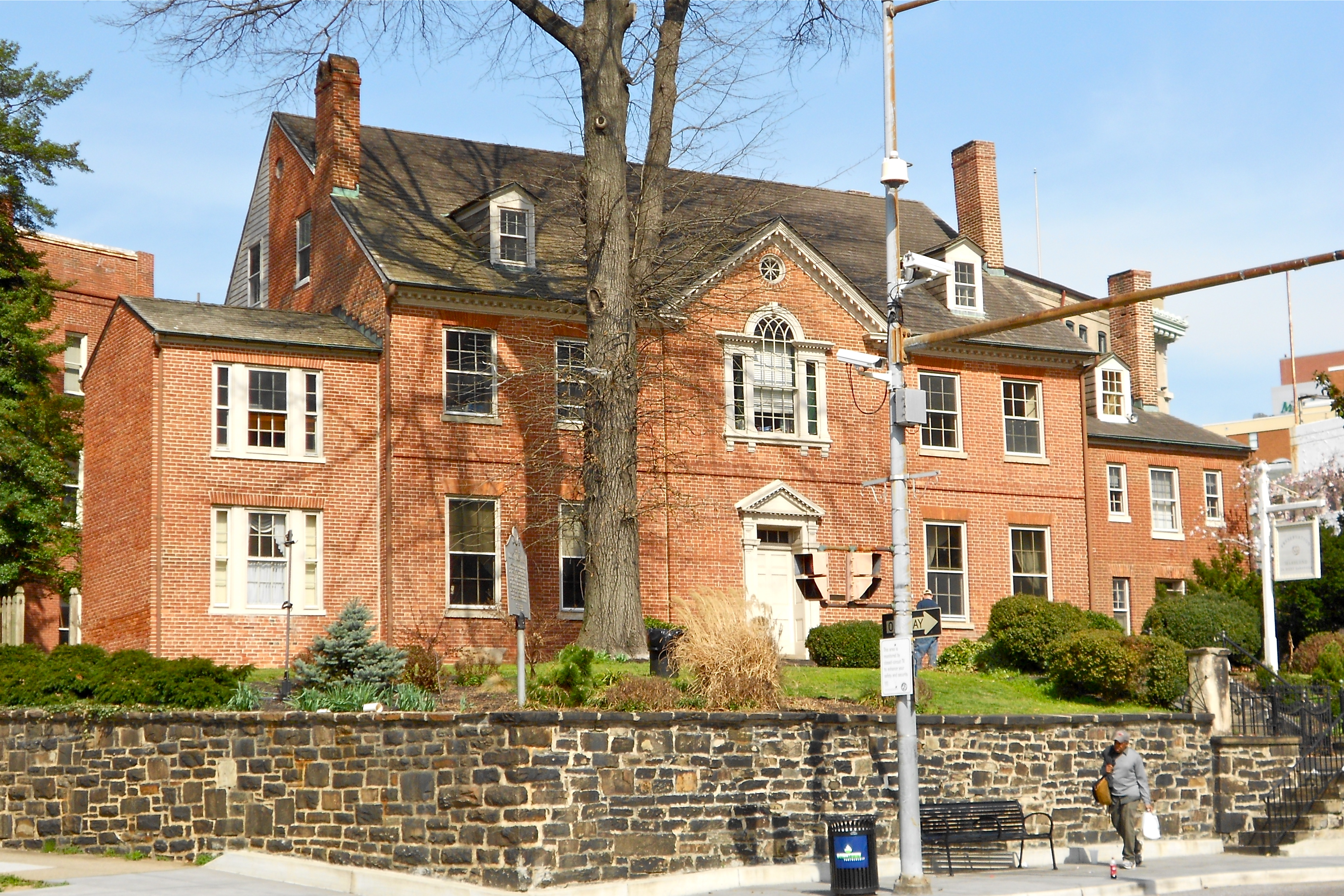 St. Paul's Church Rectory on the NRHP since March 20, 1973. At 24 W. Saratoga St. in central Baltimore, Maryland. Across from the Church which is also separately listed by the NRHP.